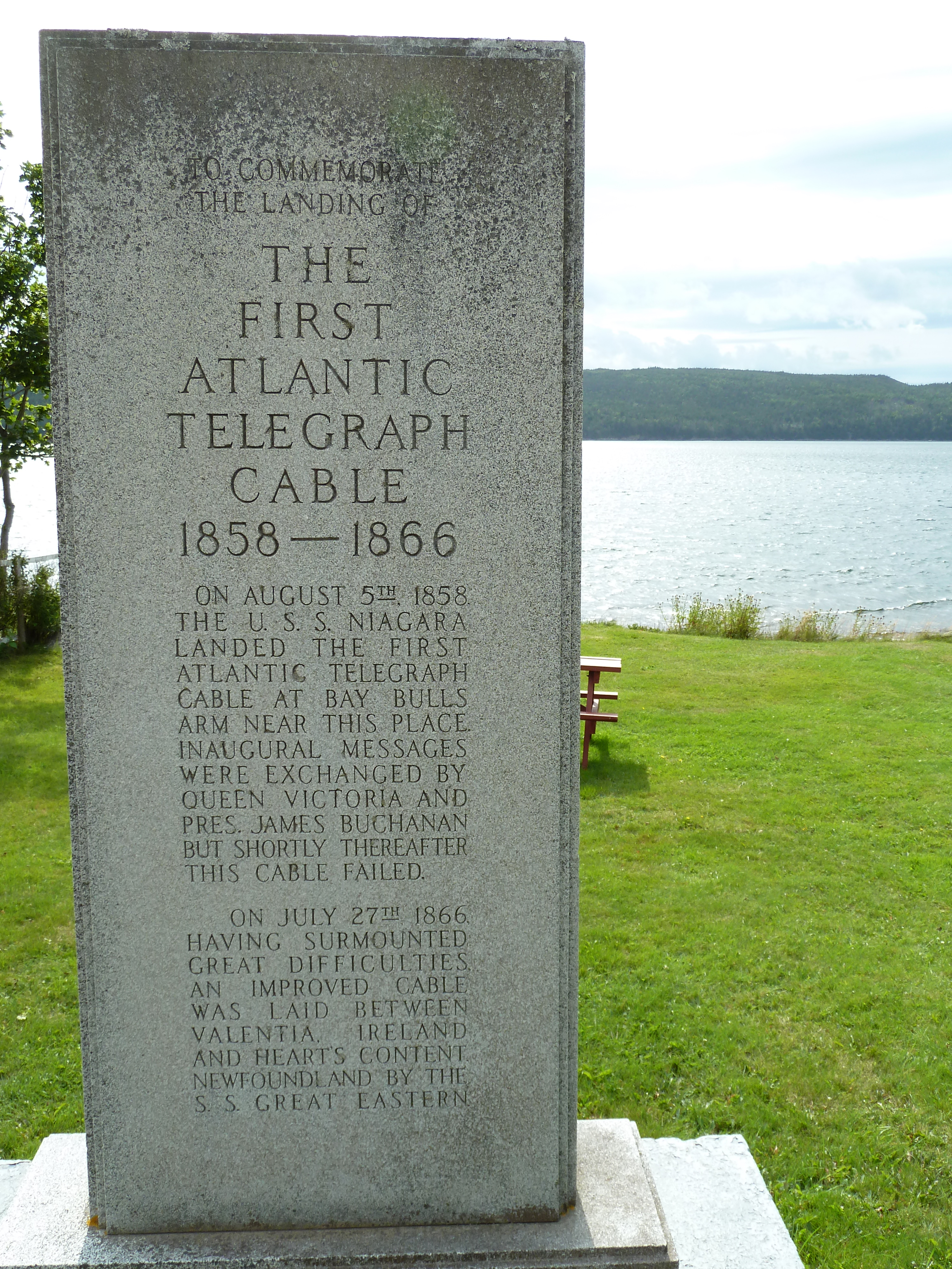 Transatlantic telegraph monument, Heart's Content, Newfoundland and Labrador